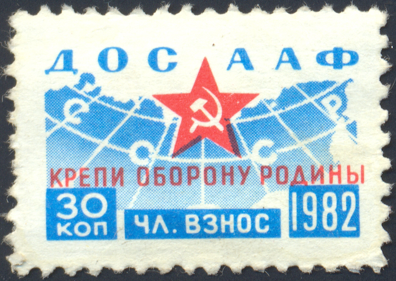 USSR revenue stamp, used to pay annual membership fee in DOSAAF, 30 k., 1982.